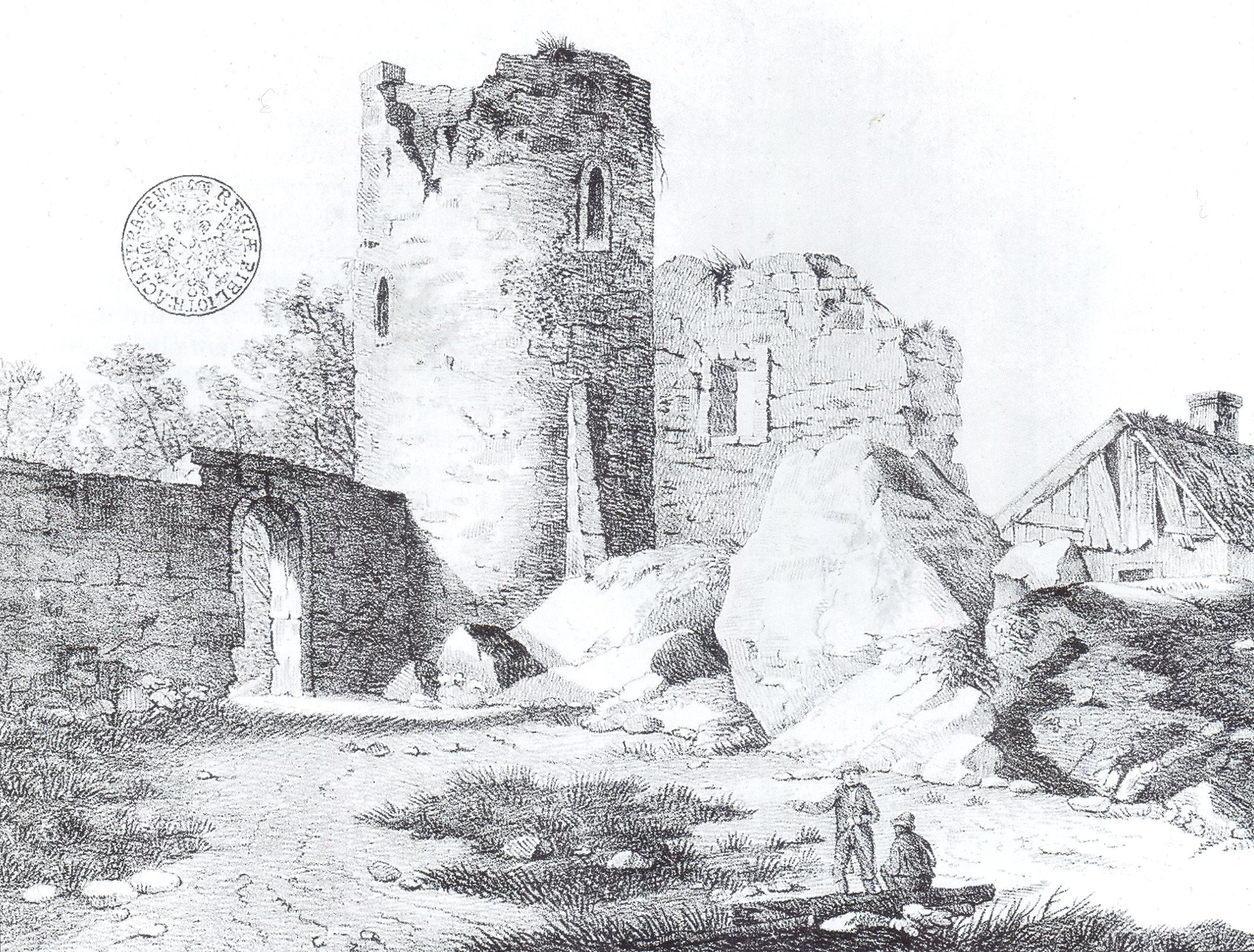 Castle ruins